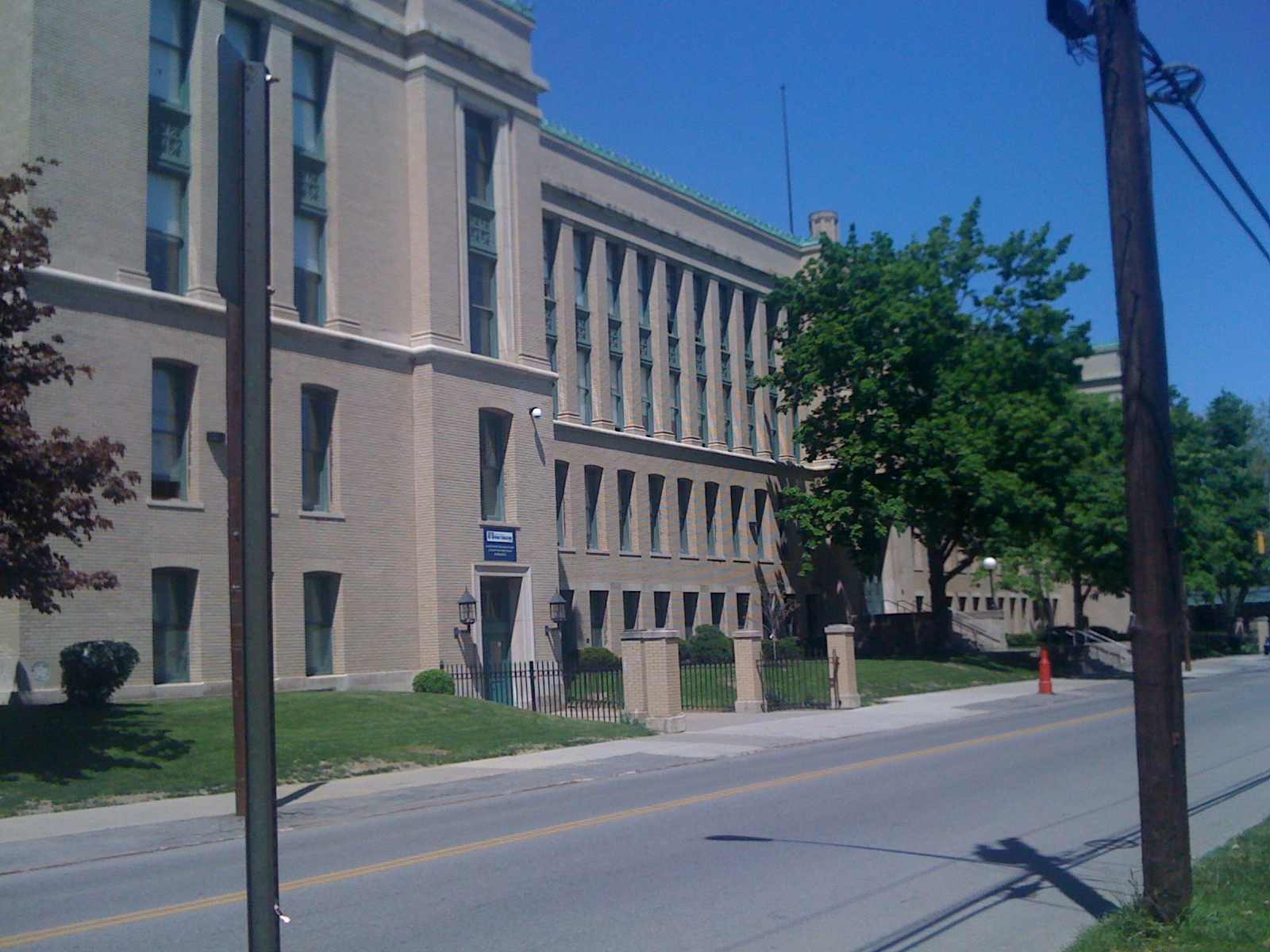 South Park High School in Buffalo, New York 150 Southside Parkway 14220